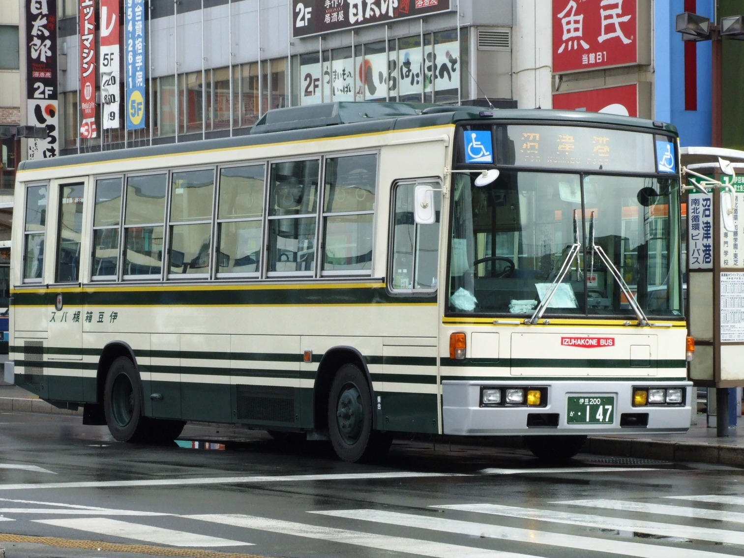 2413-Old Coloring-,Izu Hakone Bus,Japan